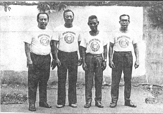 THE ORIGINAL BALINTAWAK from left to right Atty. Jose Villasin, Johnny Chiuten, Anciong Bacon & Teofelo Velez